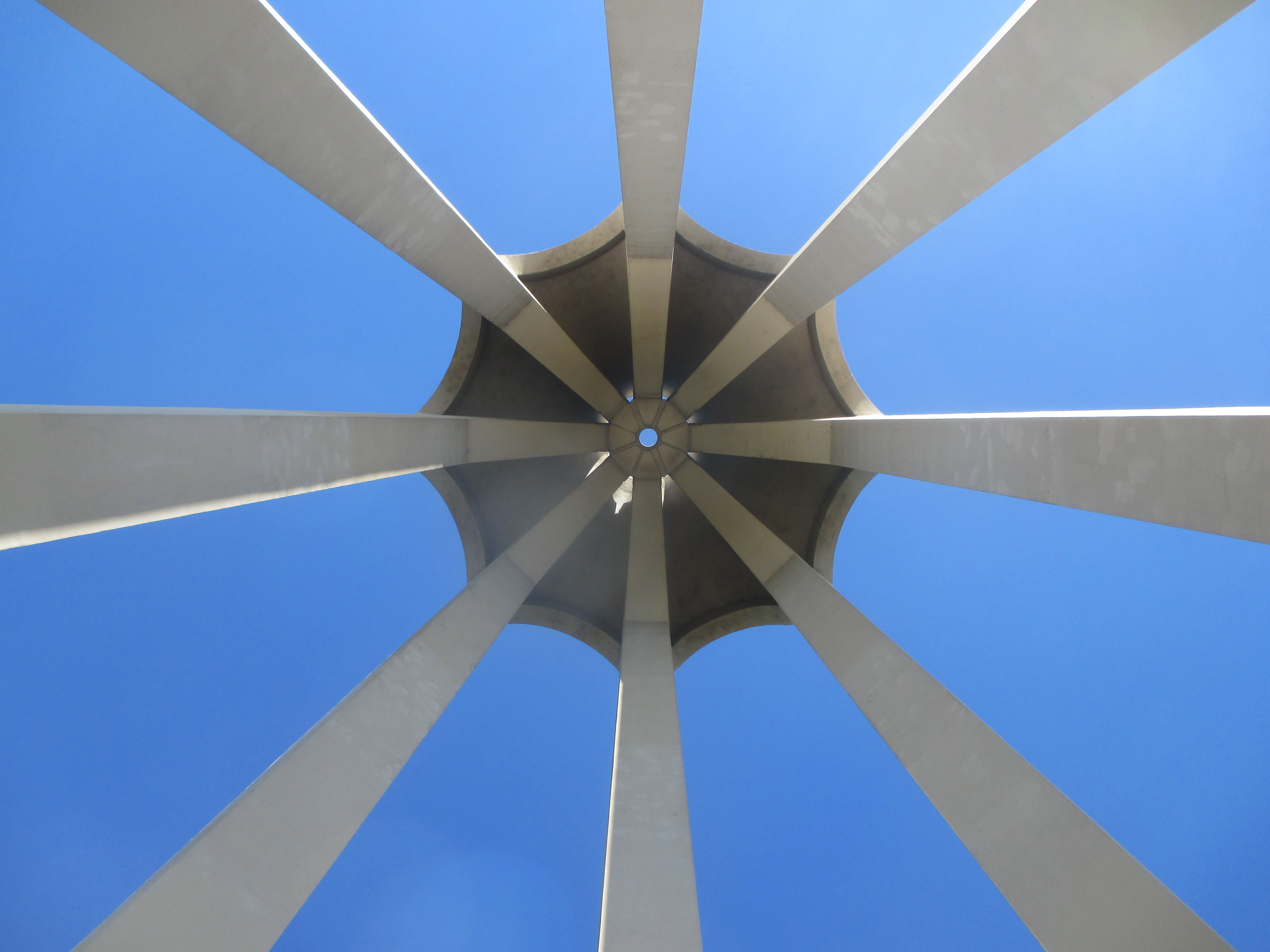 Looking up from inside the Armenian Genocide Memorial in Montebello, California. Located in Bicknell Park, Montebello, California, United States.